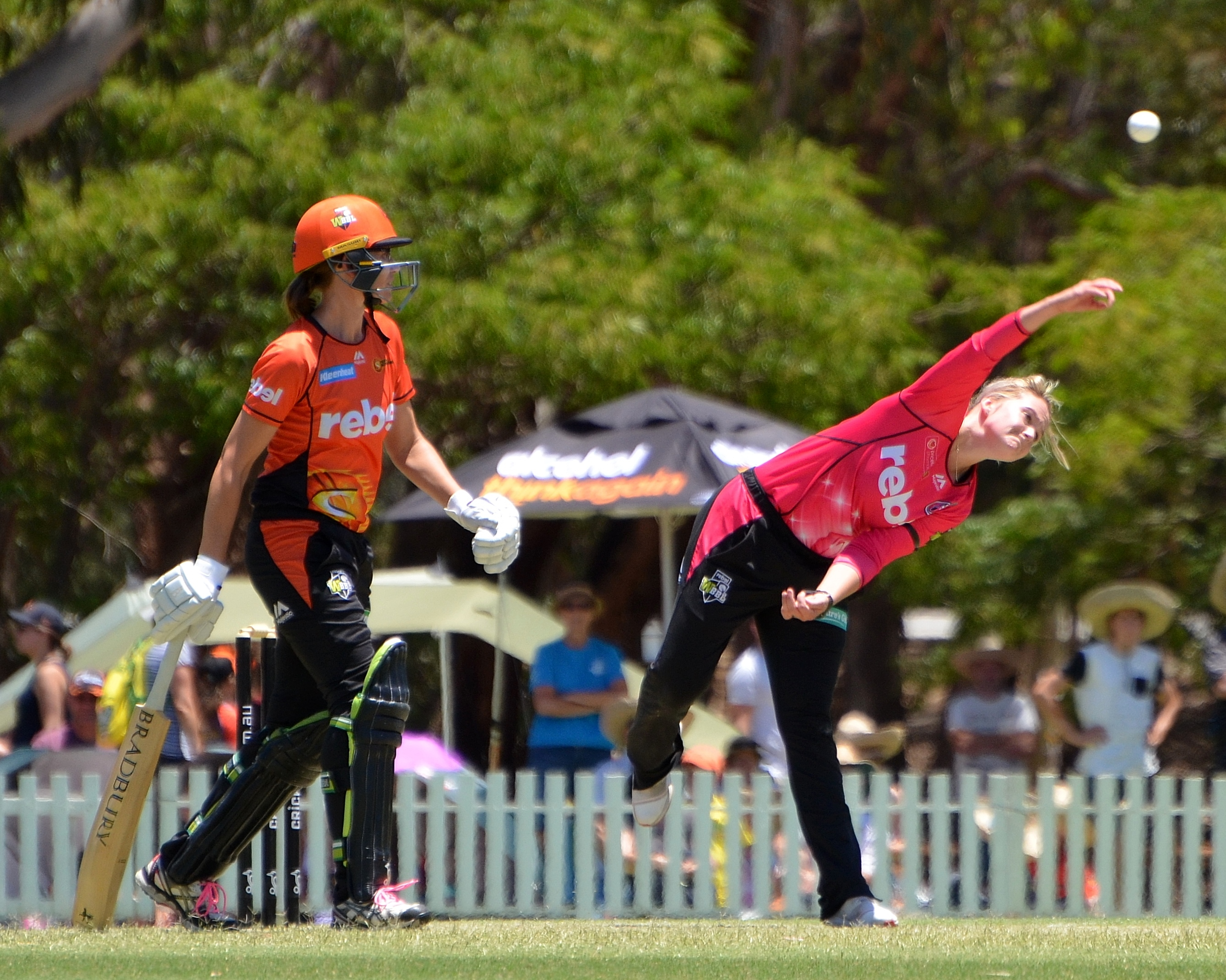 Dane van Niekerk bowling for Sydney Sixers against the Perth Scorchers, in a WBBL match at Lilac Hill Park in Perth. The batter is Lauren Ebsary.